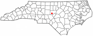 Category:North Carolina Dot Maps